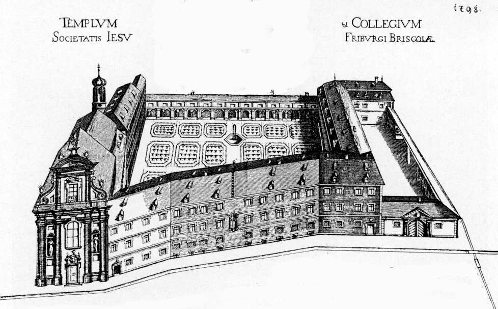 University buildings constructed by the Jesuits along Bertoldstrasse